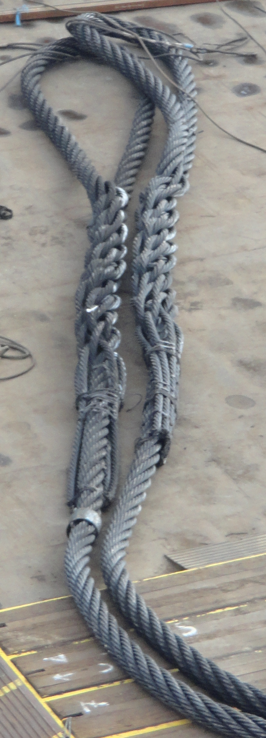 Eye splice in sling, 283mm diameter, SWL 1000 ton